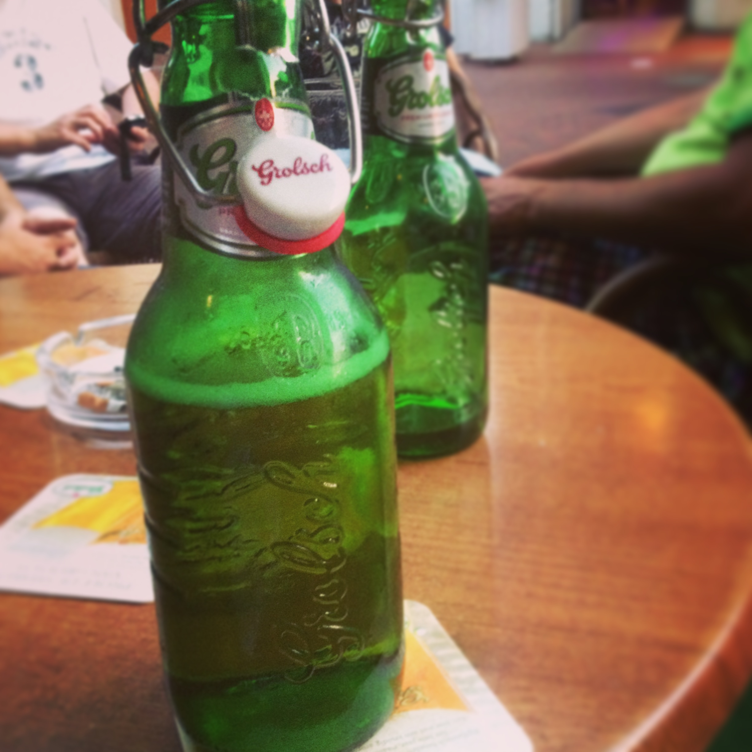 A swingtop bottle of Grolsch being enjoyed in an Eindhoven city centre bar. Summer 2013.